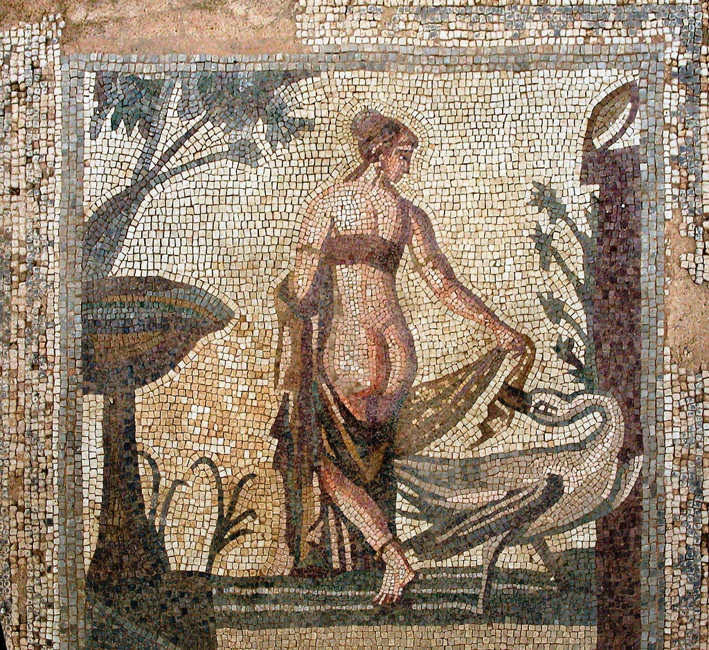 Tile mosaic depicting Leda and the Swan from the Sanctuary of Aphrodite, Palea Paphos; now in the Cyprus Museum, Nicosia